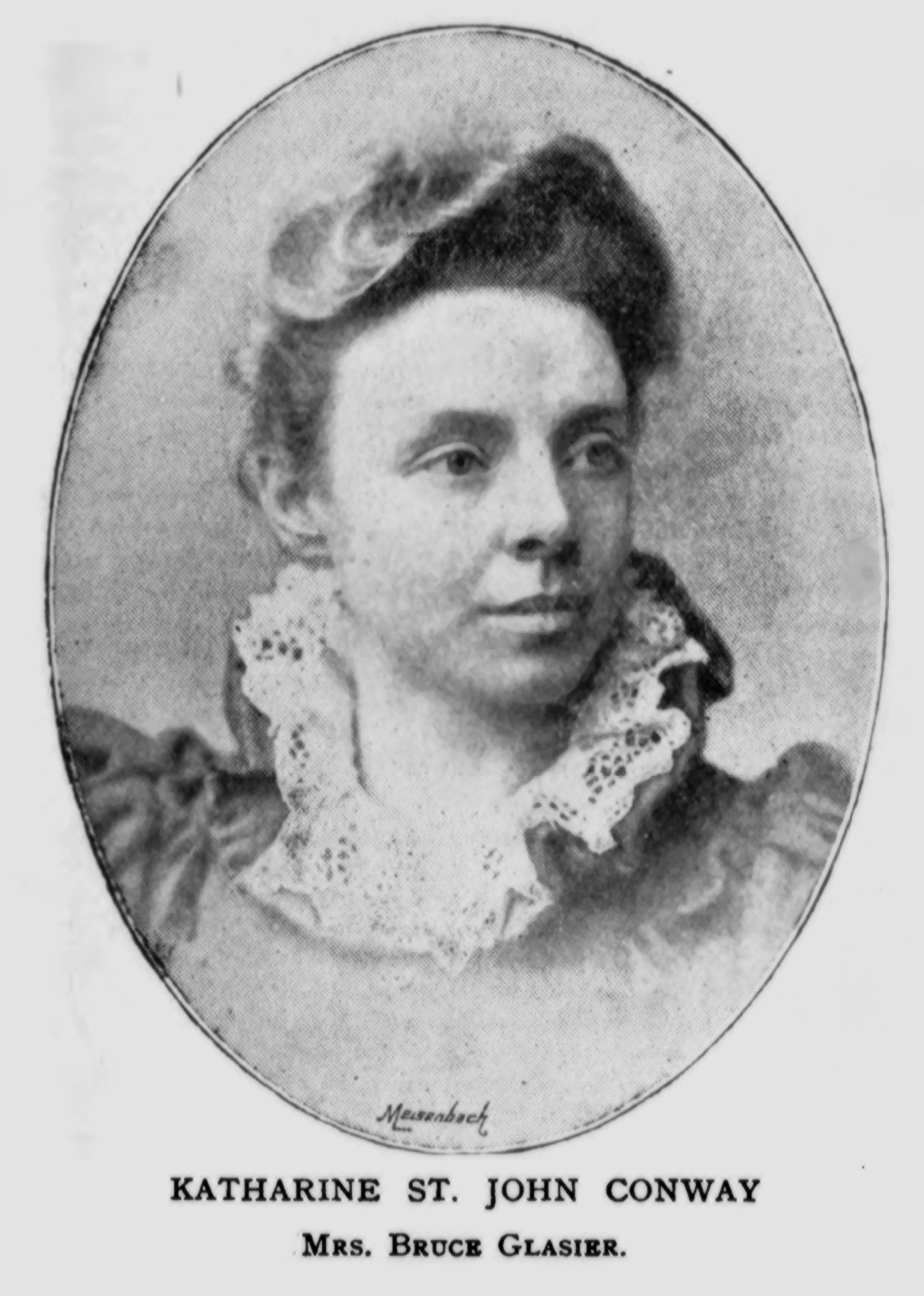 Katharine Glasier (25 September 1867 - 14 June 1950) was a British socialist journalist. Glasier was born in Stoke Newington as Katharine St John Conway.